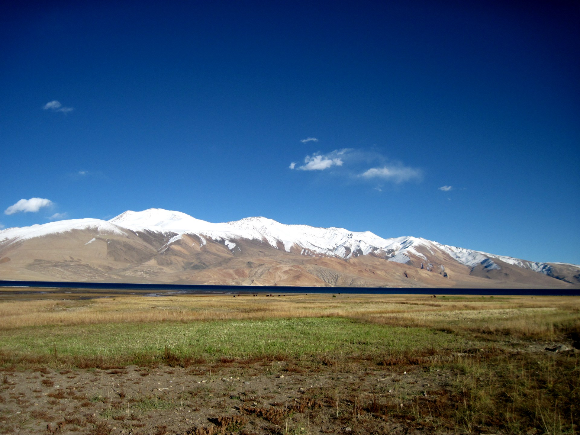 Tso Moriri in Ladakh near Karzok village